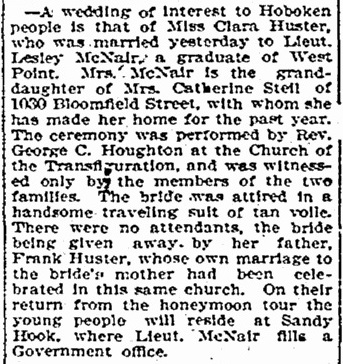 Newspaper article announcing wedding of Lesley J. McNair